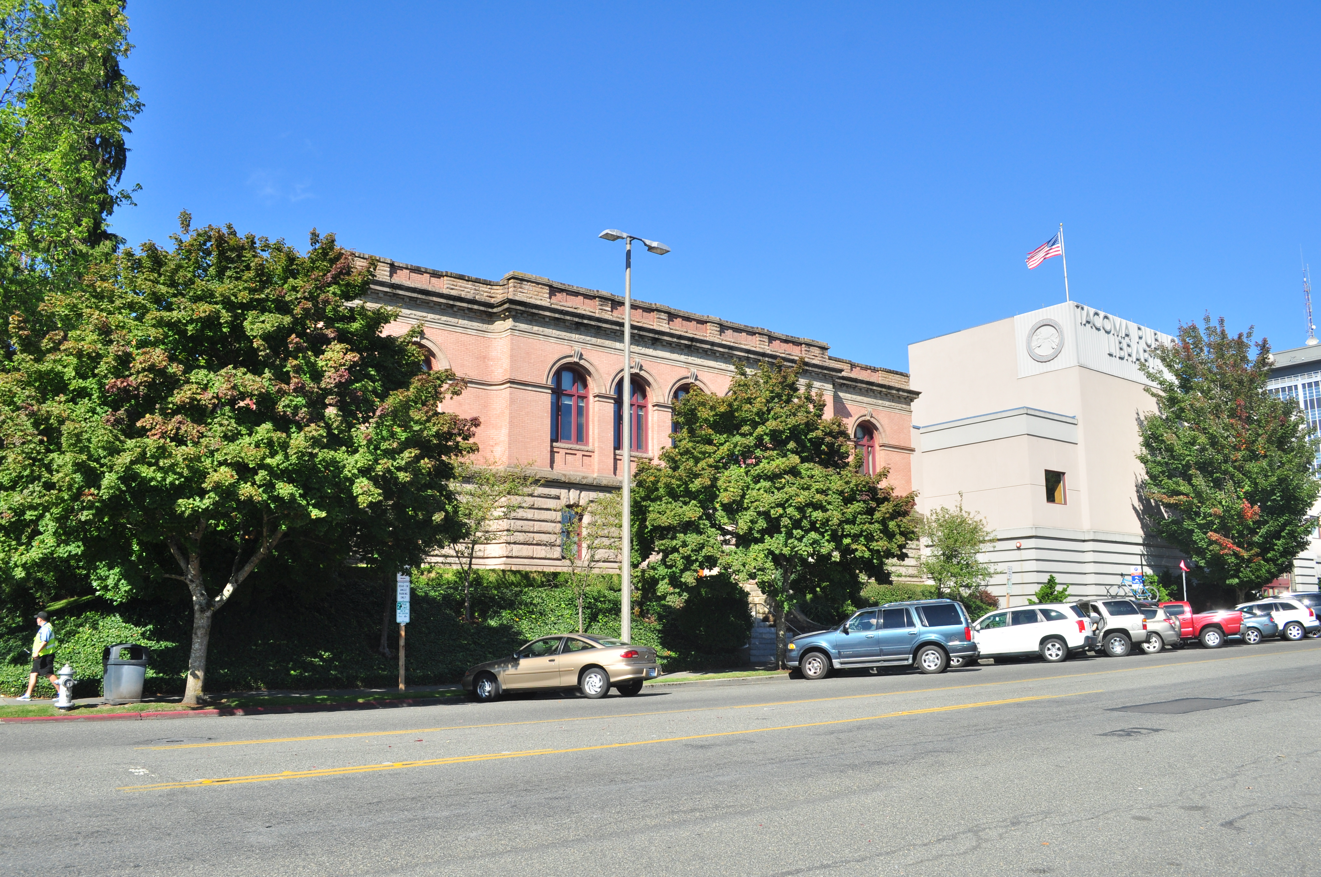 Main Library (Carnegie Library in foreground, 1952 extension at right), Tacoma, Washington.